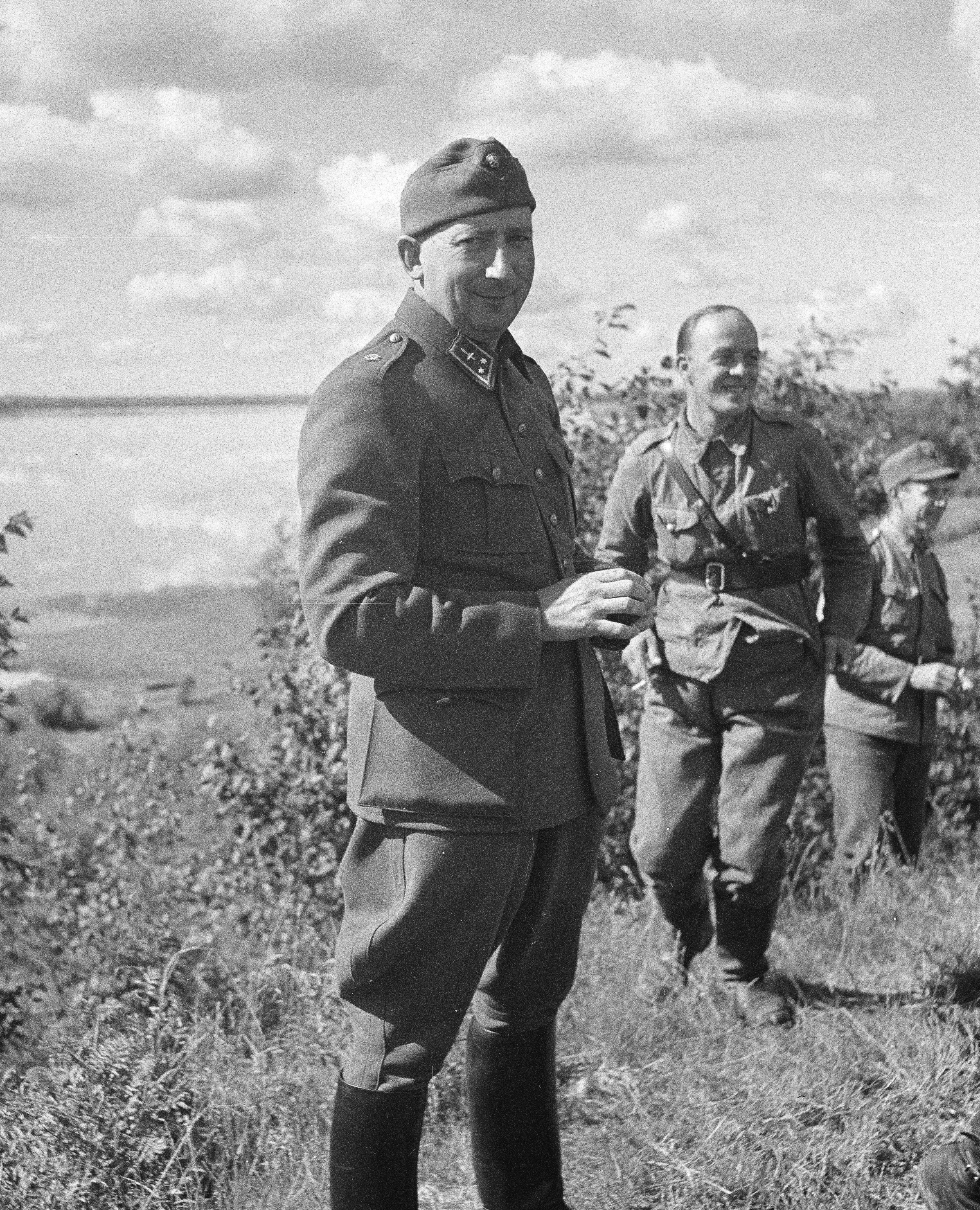 Photograph of the Finnish film director and producer Risto Orko (1899–2001) during the Continuation War.